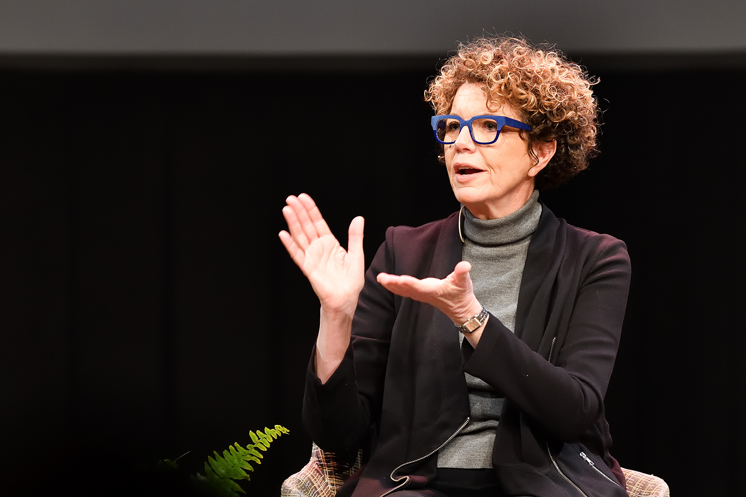 Photograph of data artist, Laurie Frick onstage during a visiting artist talk